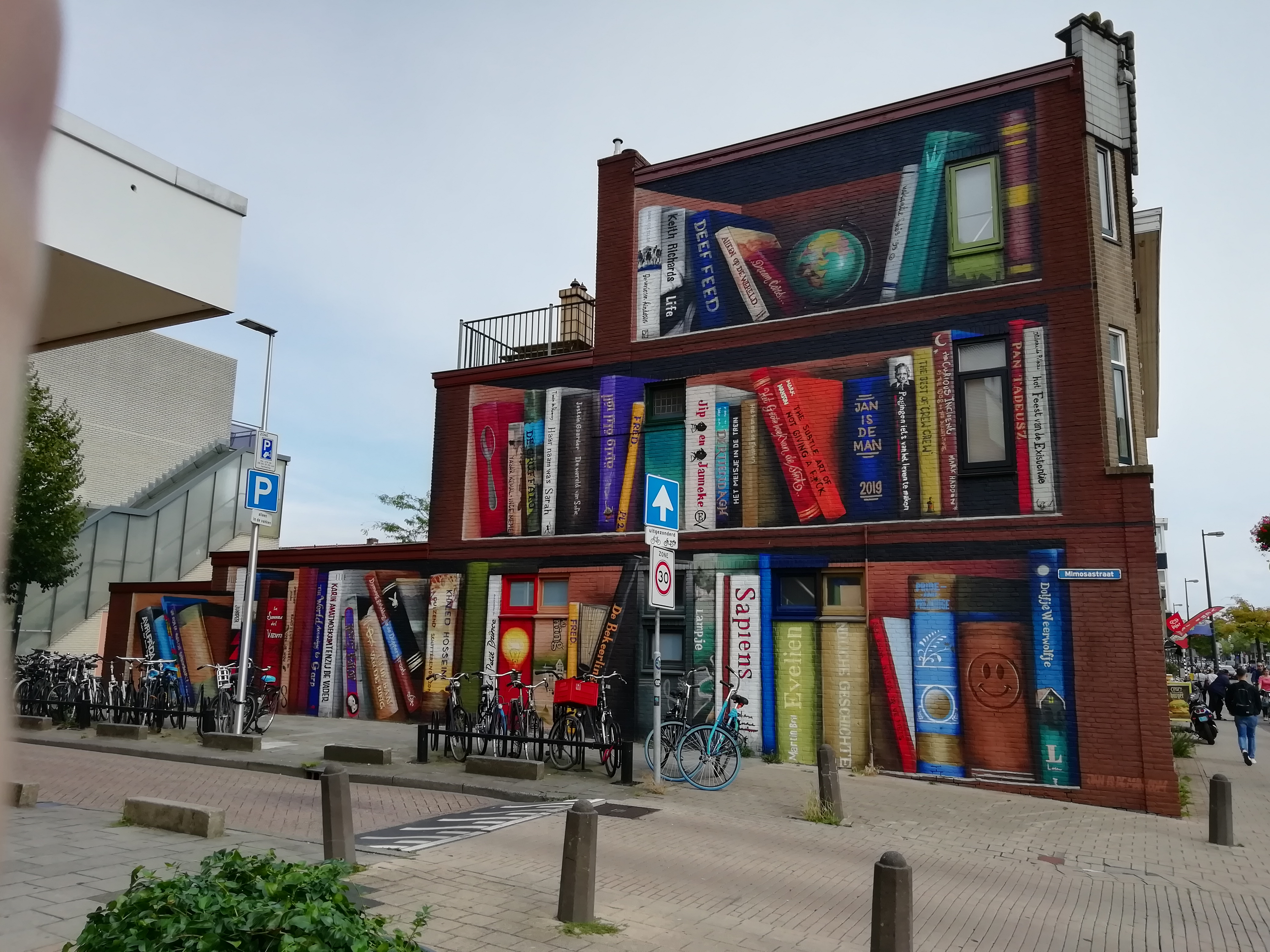 Mural Bookcase, Amsterdamsestraatweg, Utrecht, the Netherlands